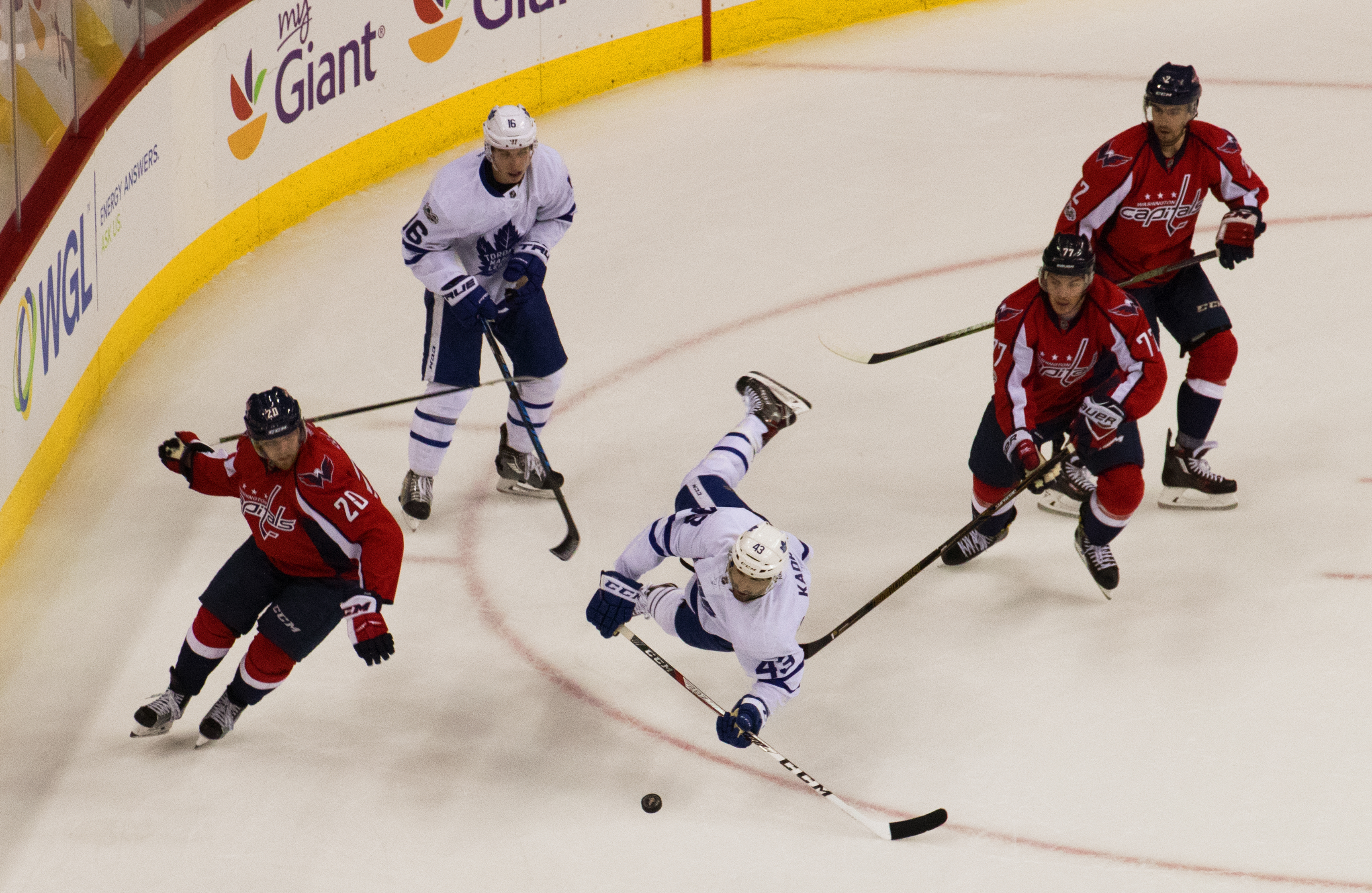 NHL 2017 Playoffs, Round 1, Game 5: Capitals 2, Toronto Maple Leafs 1